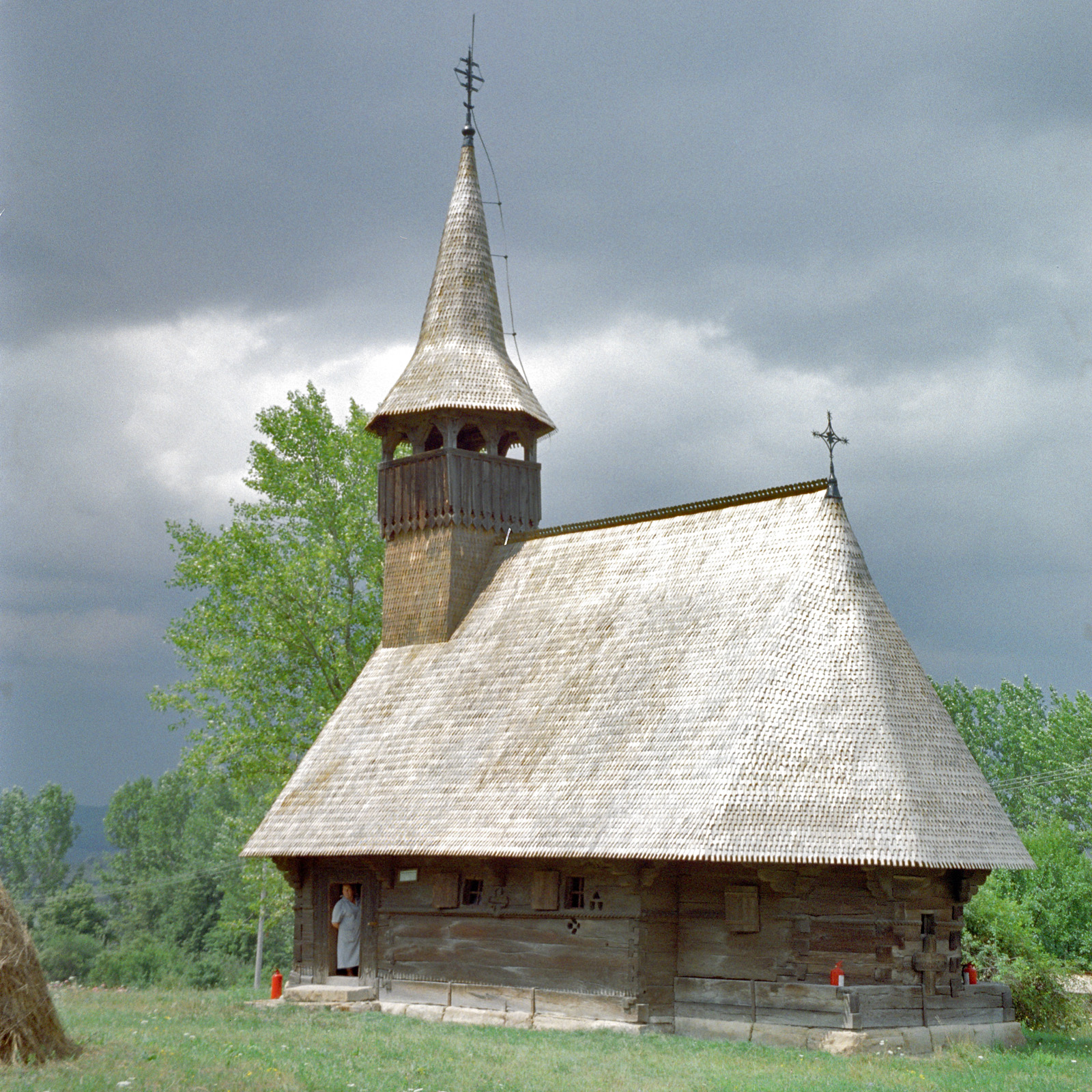 Wooden church of Chiraleş / église en bois de Chiraleş